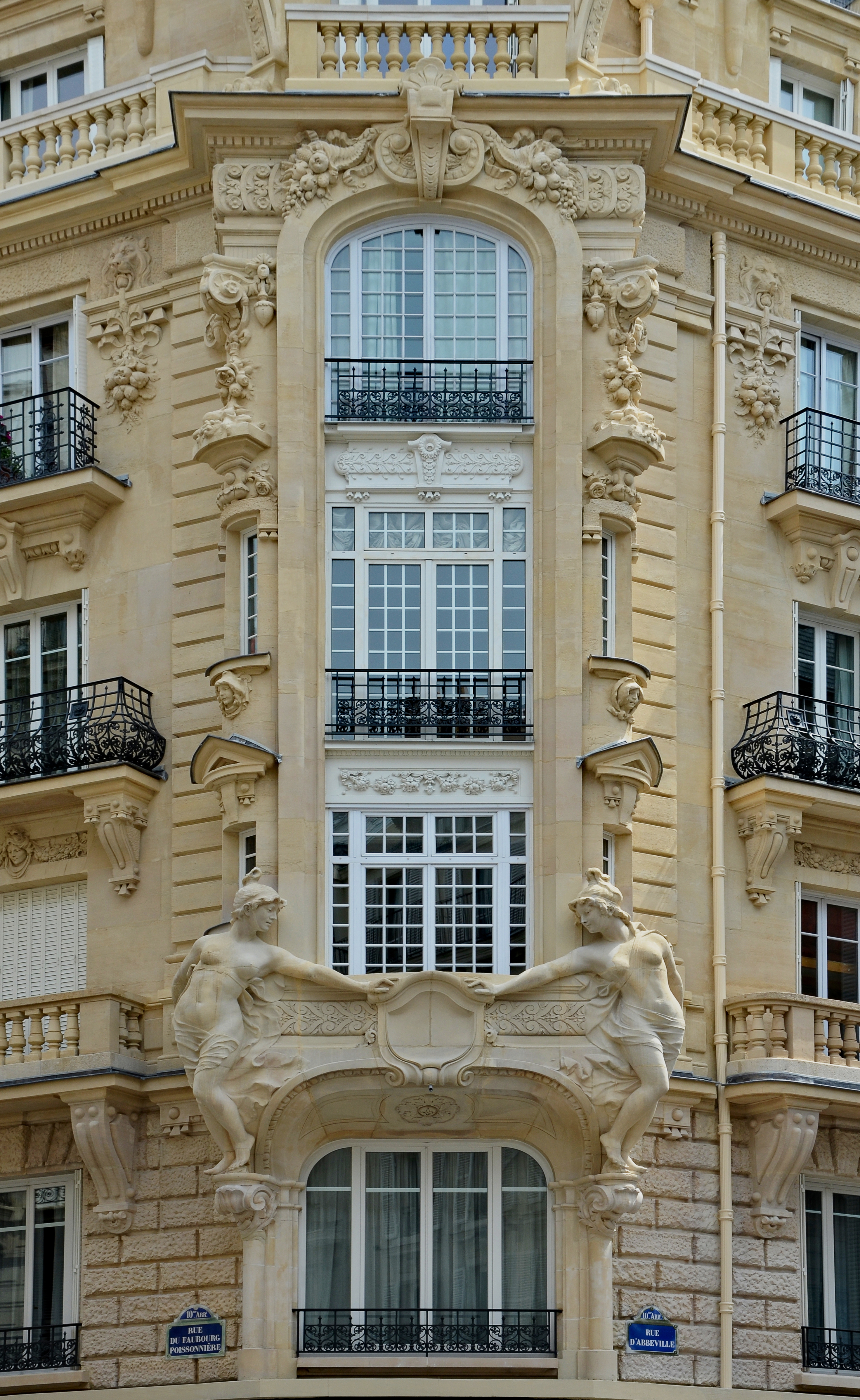 Facade of a building (1899), partial view. 16 rue d'Abbeville, Paris, 10th arr., France.